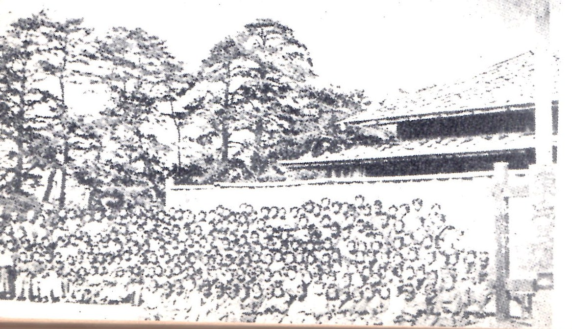 a assemble photo of Towo Gijuku in front of School Building